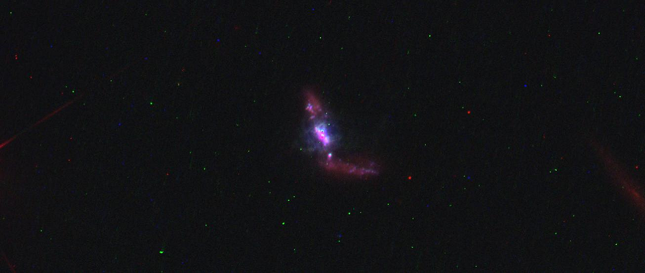 An image of Tololo-1247-232 taken by the WFC_UVIS on the Hubble Space Telescope as part of PROGRAM 13027.